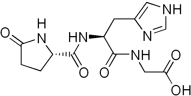 chemical structure of pyroglutamyl-histidyl-glycine